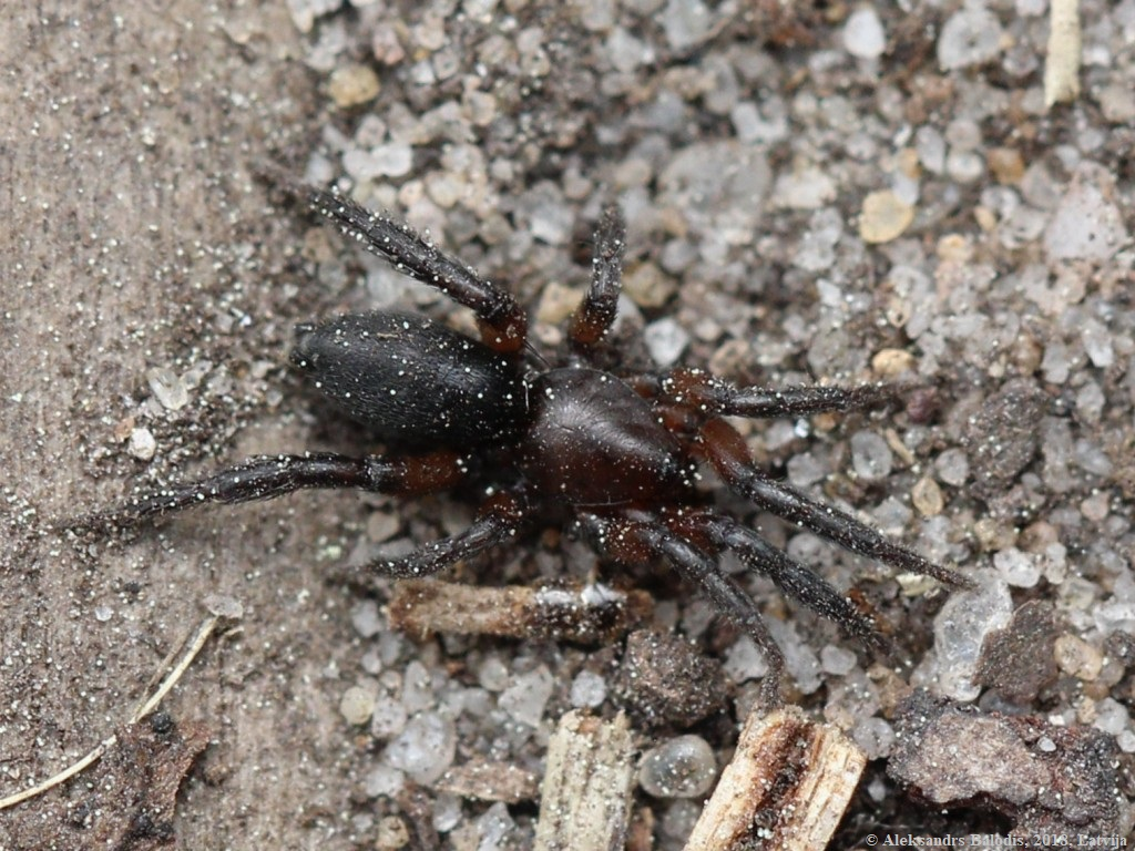 Gnaphosa bicolor